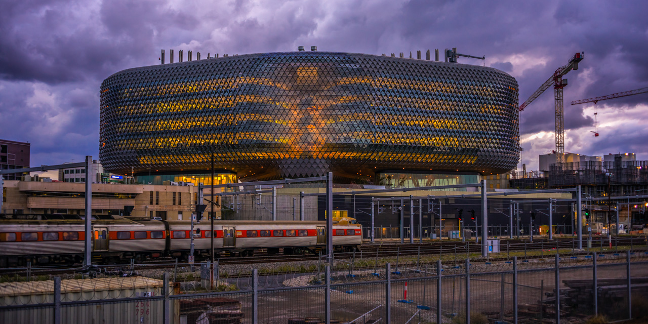 SAHMRI